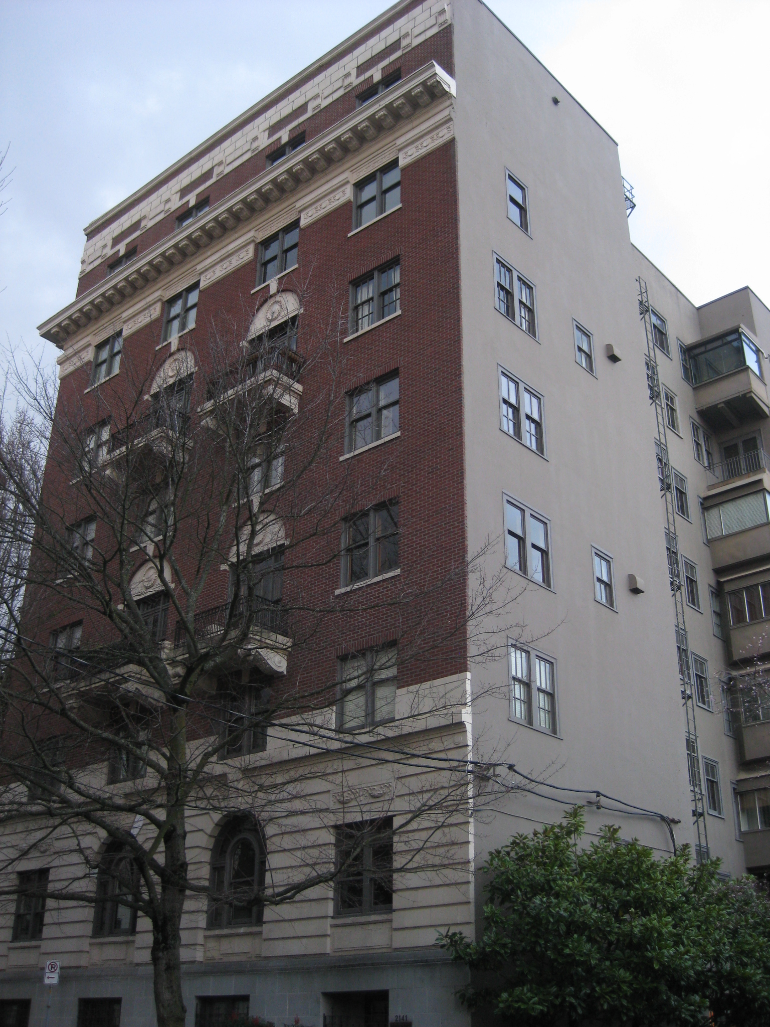 The historic 705 Davis Street Apartments (built 1913) located at 2141 NW Davis Street in Portland, Oregon, United States, are listed on the US National Register of Historic Places (NRHP). It also lies in the NRHP-listed Alphabet Historic District. NRHP reference number 80003374